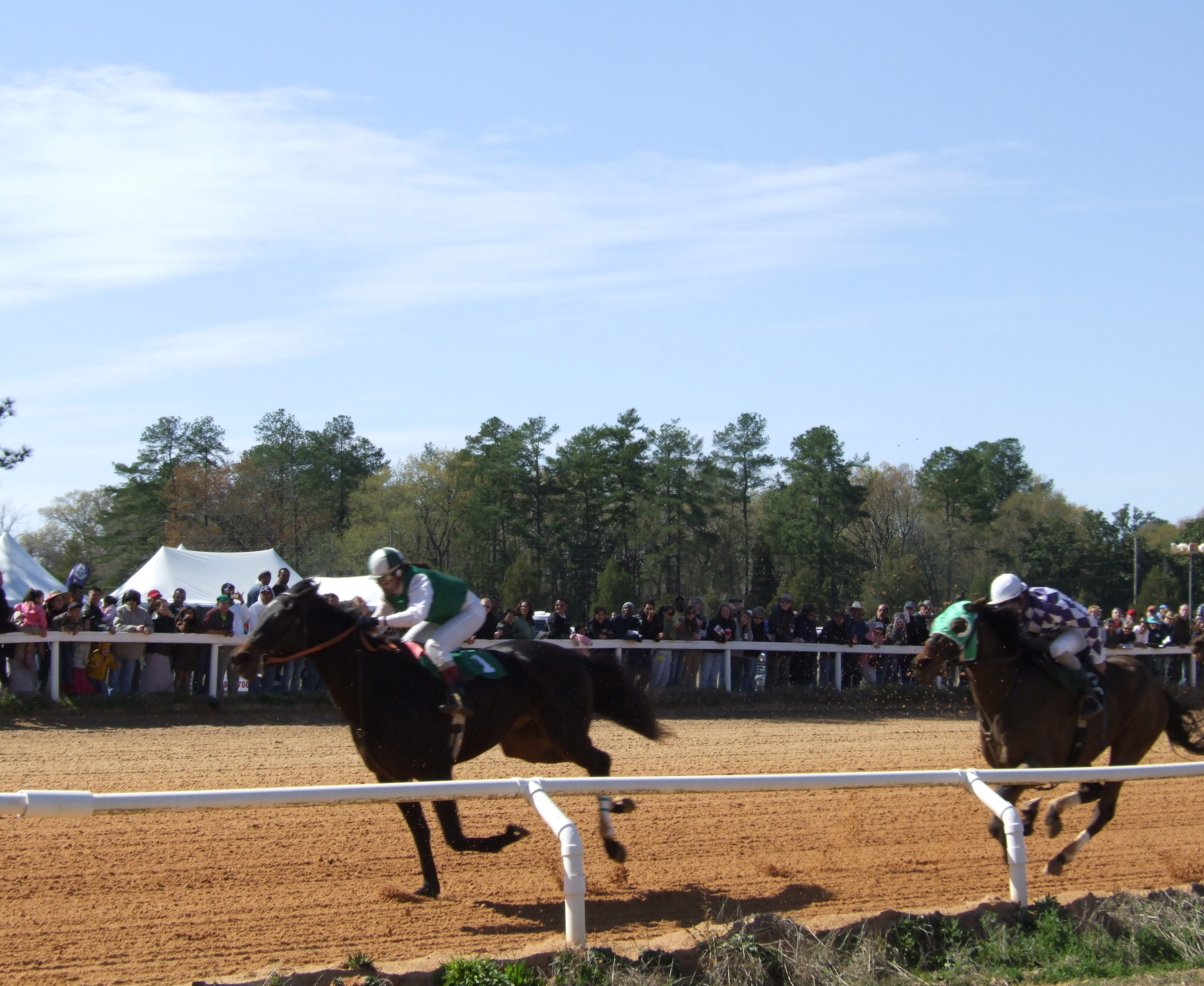 Photo taken at the Aiken Trials 2007 held at the Aiken Training Track